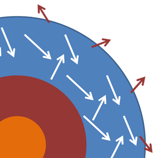 Idealized photosphere showing thermalized photons of which a few escape